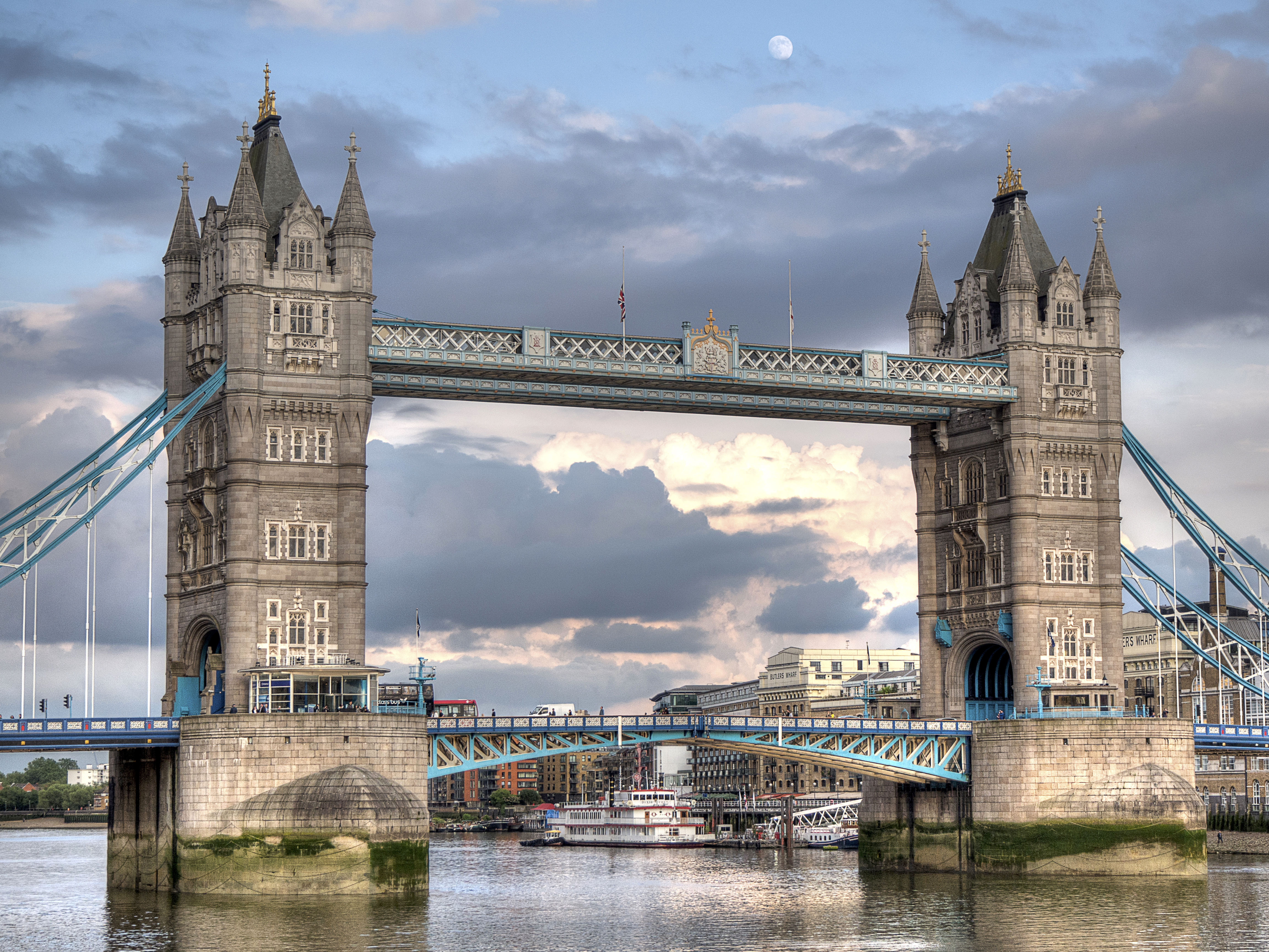 Tower Bridge on June 17, 2016